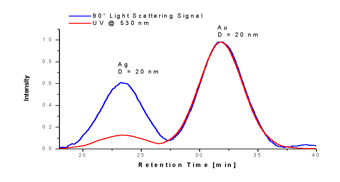 Centrifugal FFF can be separated by particle density and particle size. With identical sized gold and silver nanoparticles can be separated into two peaks, according to differences in density in the gold and silver nanoparticles.